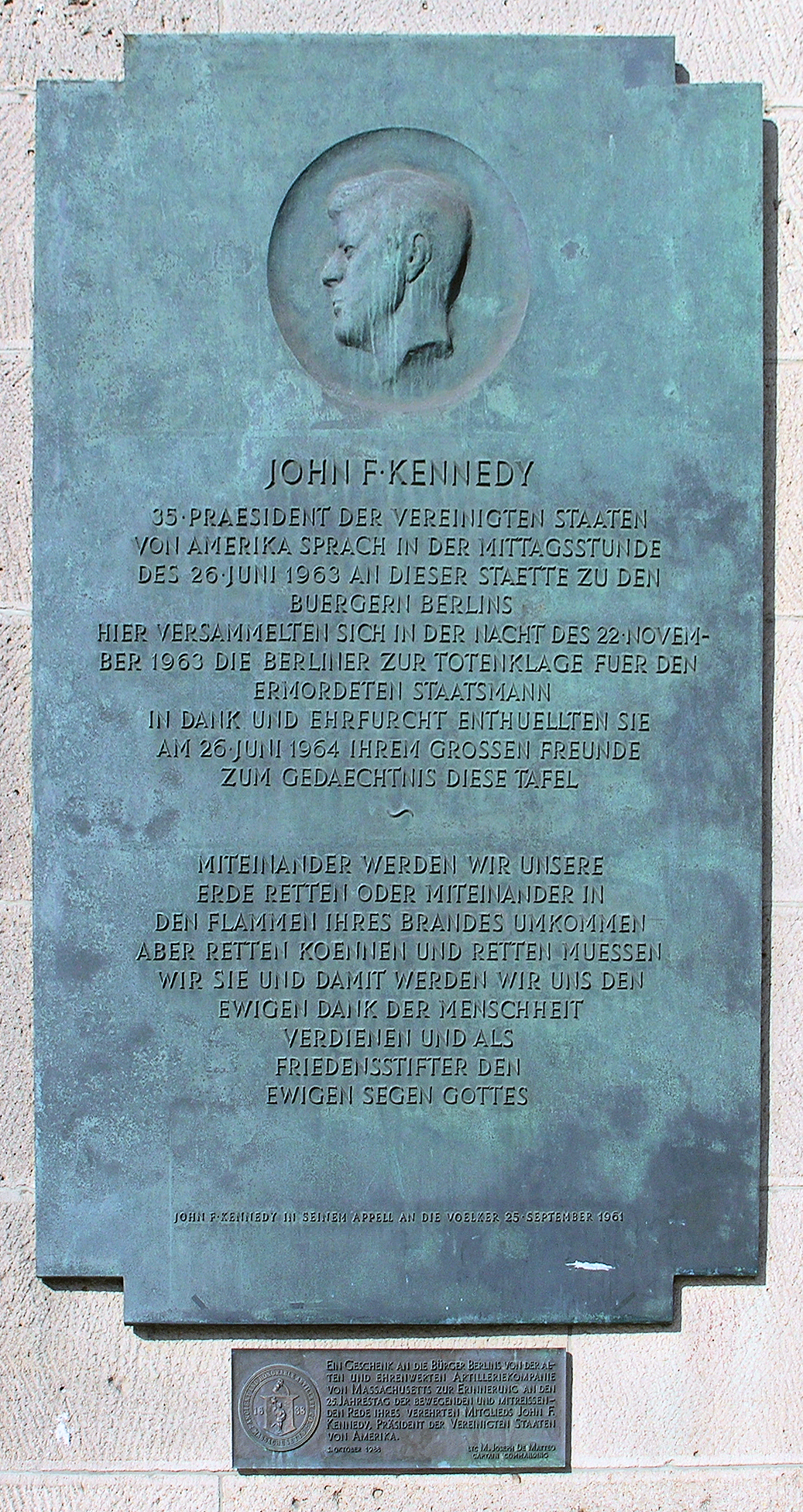 Memorial plaque, John F. Kennedy by Richard Scheibe, 1964, John-F.-Kennedy-Platz , Berlin-Schöneberg, Germany Koordinate:52°29′6″N 13°20′39″E / 52.485°N 13.34417°E